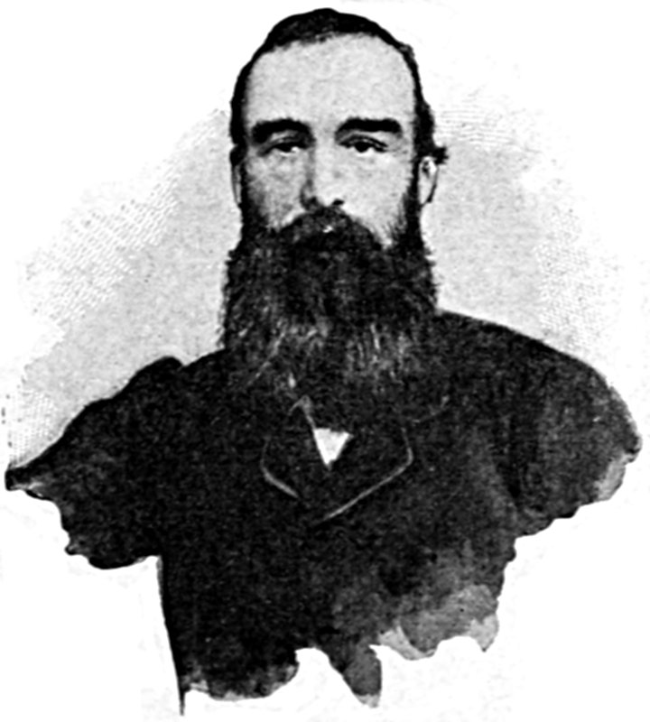 Illustration from book Storia dei Mille by Giuseppe Cesare Abba - Antonio Mosto